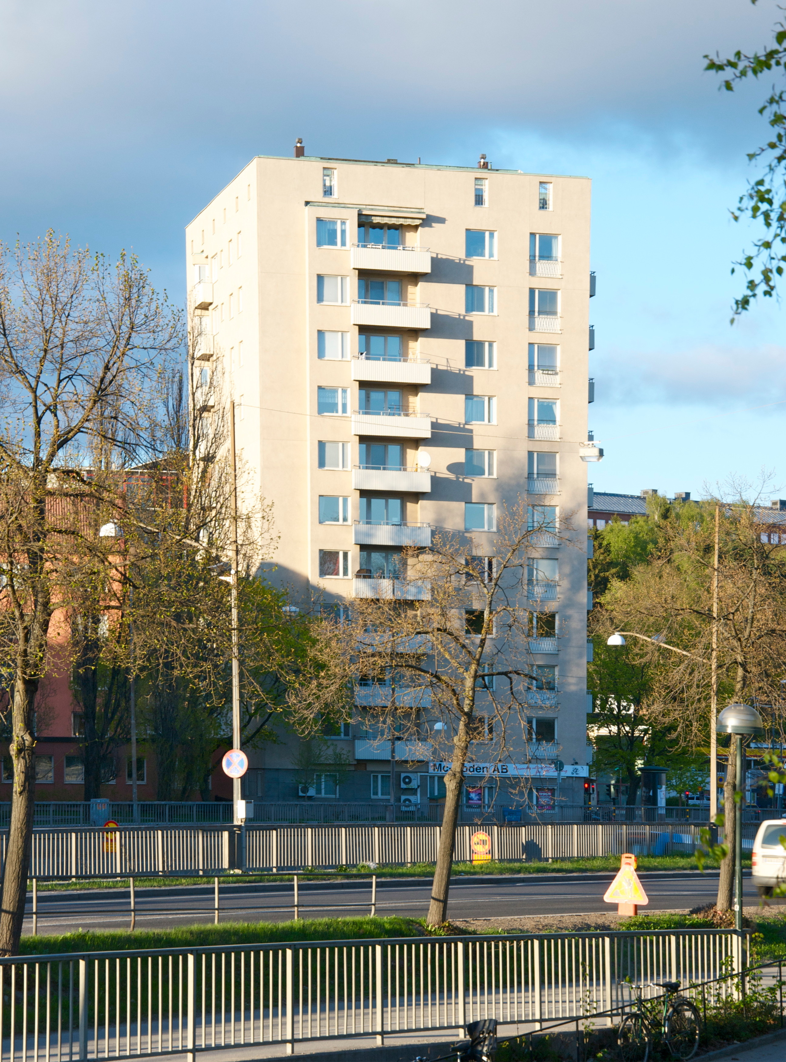 Good Year-huset vid Lindhagensplan.